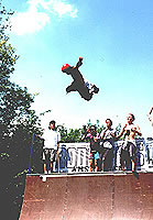 Method air, Steve Caballero, Amsterdam 1987 Foto door Hans Lucas